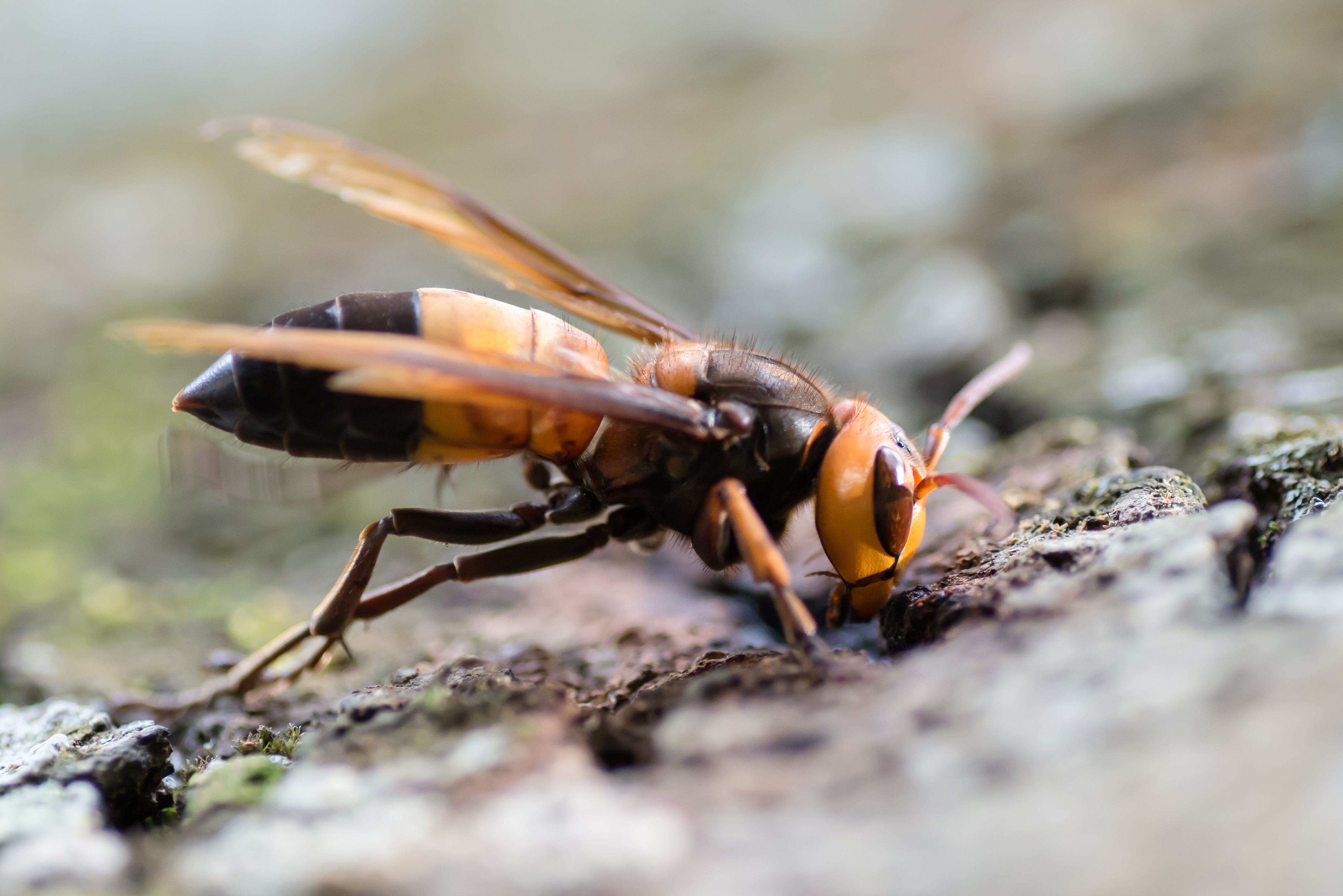 This photo is published under Creative Commons Attribution-Share-Alike Licence, means you are free to use this photo with attribution under same licence. For credits, please use following; Owner: Thai National Parks Link